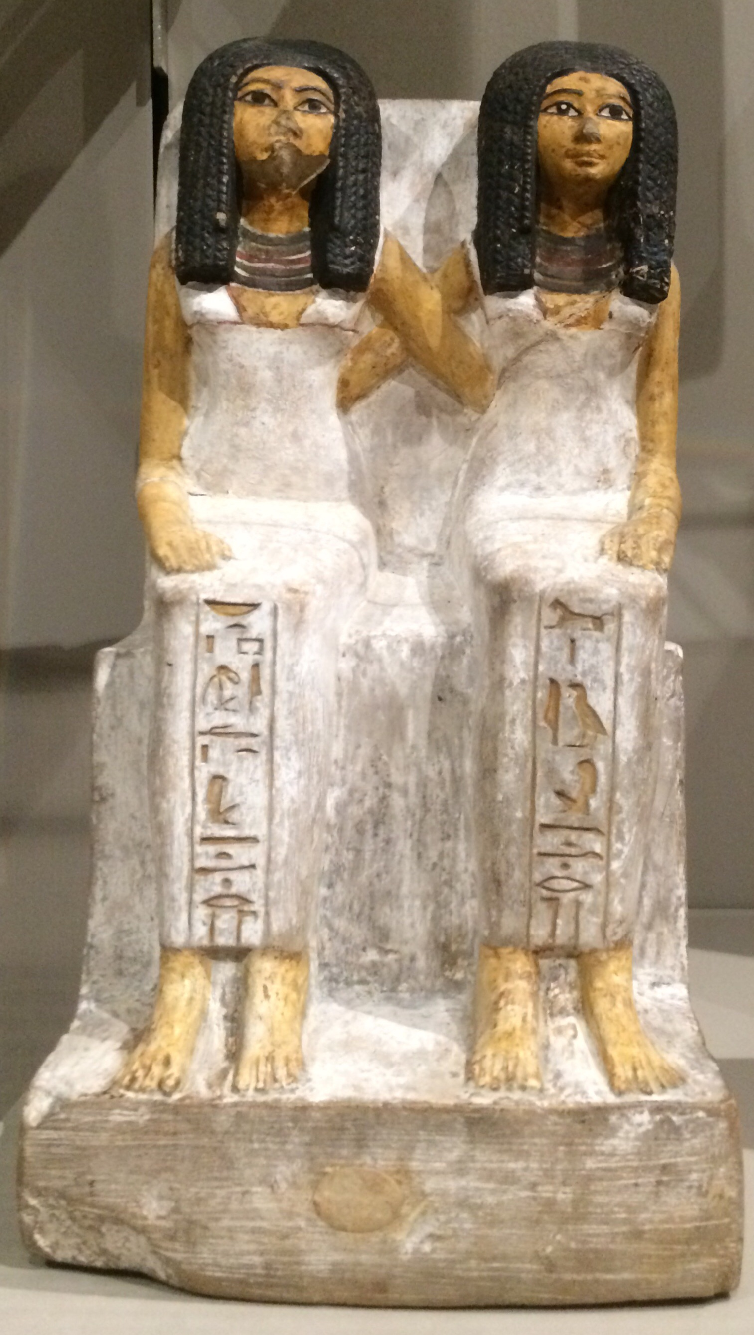 Egyptian statue of Idet e Ruiu Limeston, new kingdom, 18th dinasty, 1480-1390 BC, Theban necropolis (?) Egyptian museum of Turin, Italy Old fund (1824-1888). C.3056